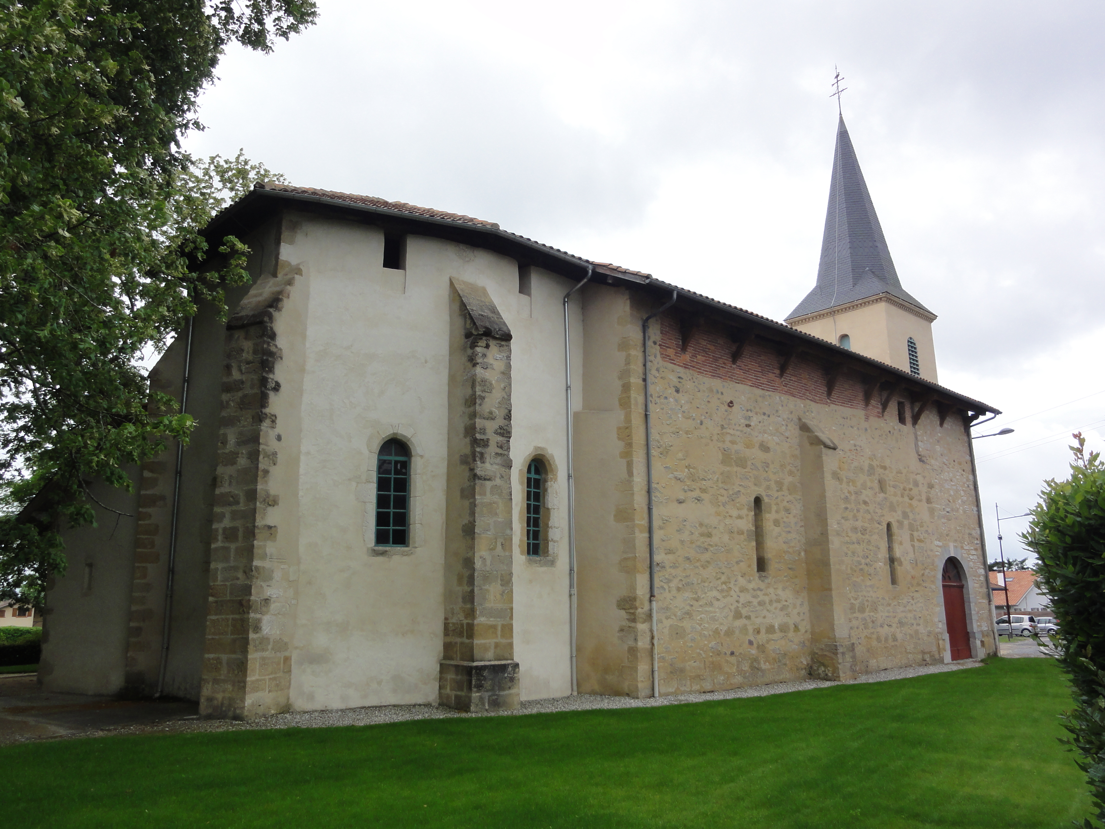 Angresse (Landes) église